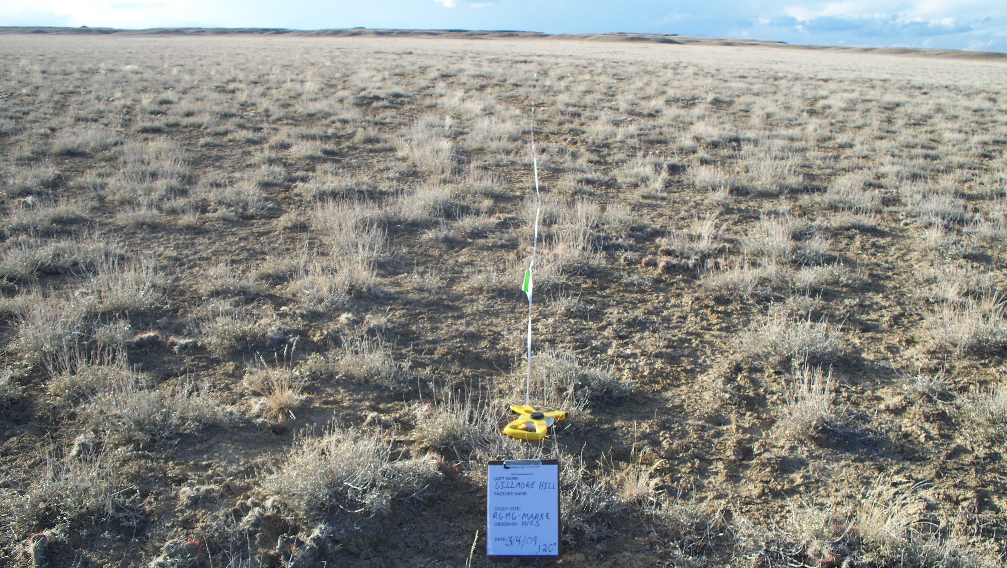 A transect running across grassland at Gillmore Hill, Wyoming.